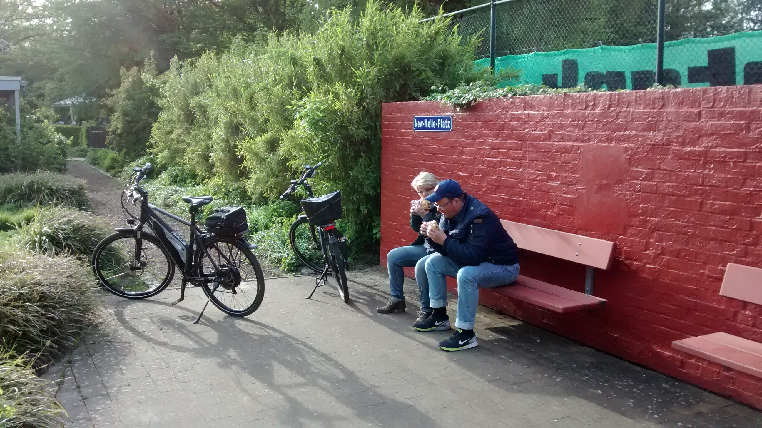 The exclusive meeting point for people that are interested in NEW MELLE, USA.